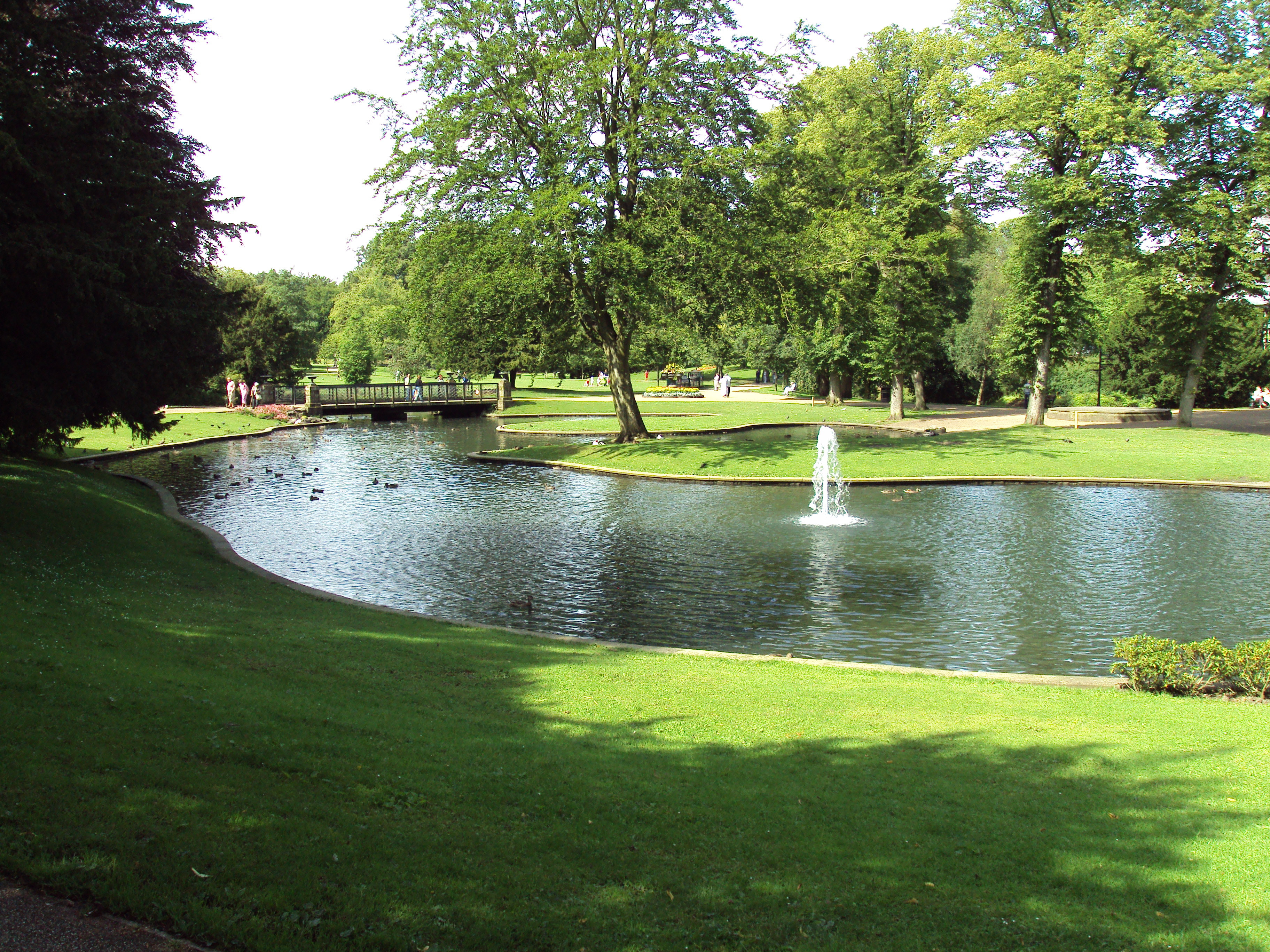 Lake at Pavilion Gardens, Buxton, Derbyshire, England.